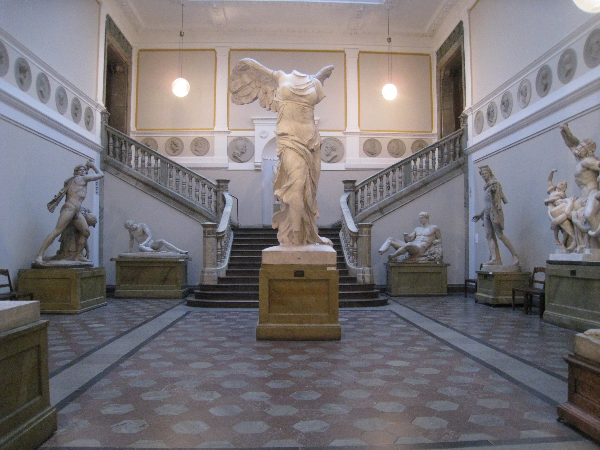 Plaster casts in the Royal Swedish Academy of Arts, interior of the hall of Nike, Stockholm, Sweden.